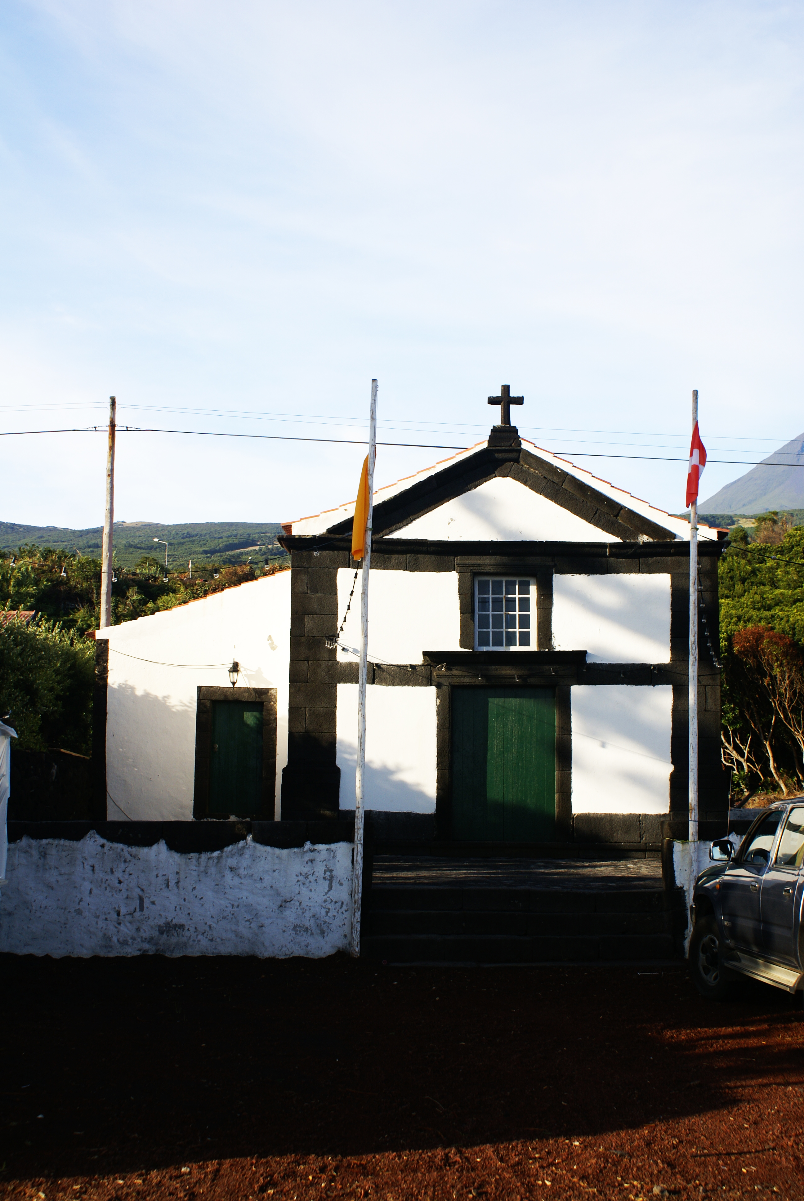 Ermida Mãe de Deus - Cais do Pico, São Roque do Pico, na ilha do Pico, nos Açores